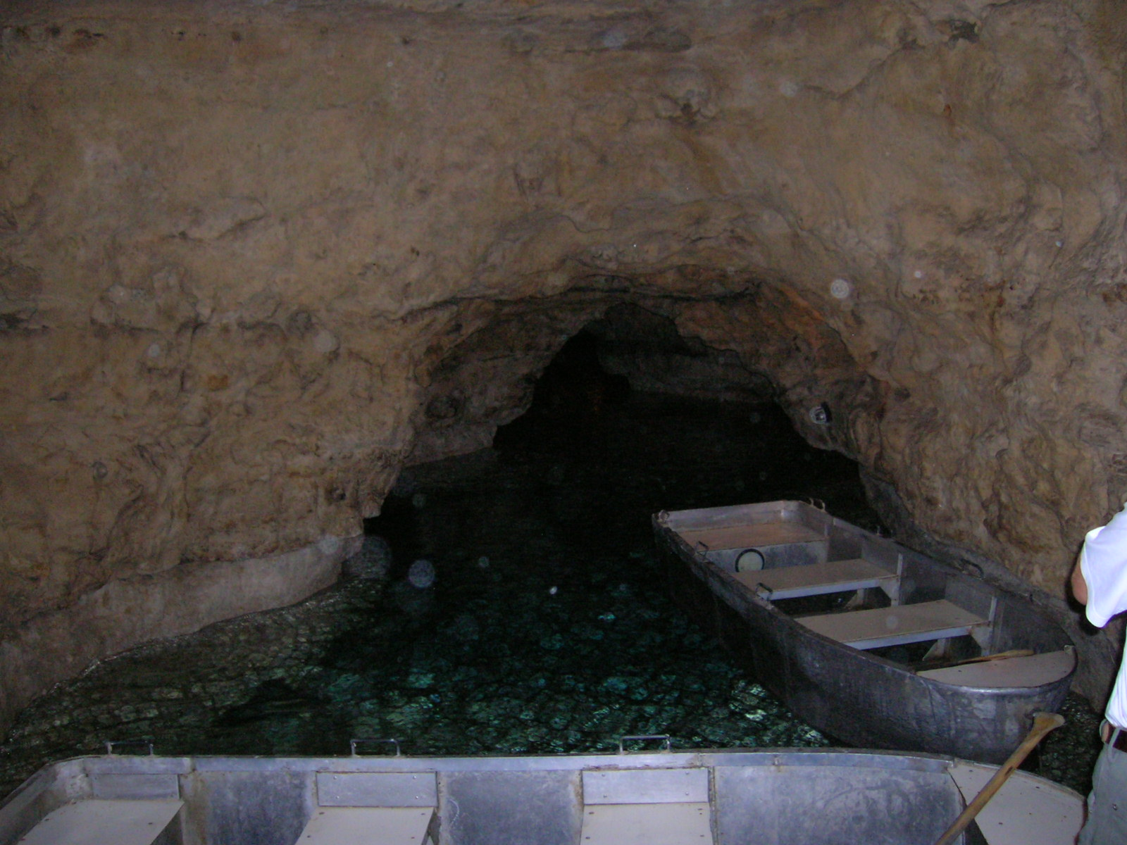 Boats on the Cave Lake. Tapolca, Veszprém county, Hungary.